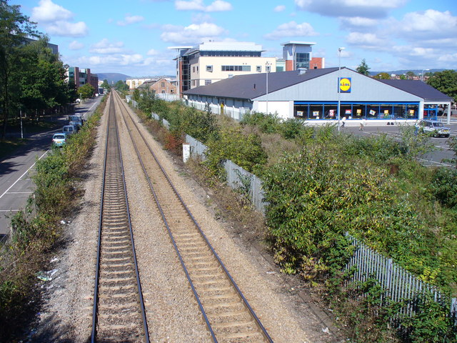 Railway Leaving Cathays Looking north-west from the Corbett Road railway bridge. On the right is a Lidl supermarket with requisite car park.